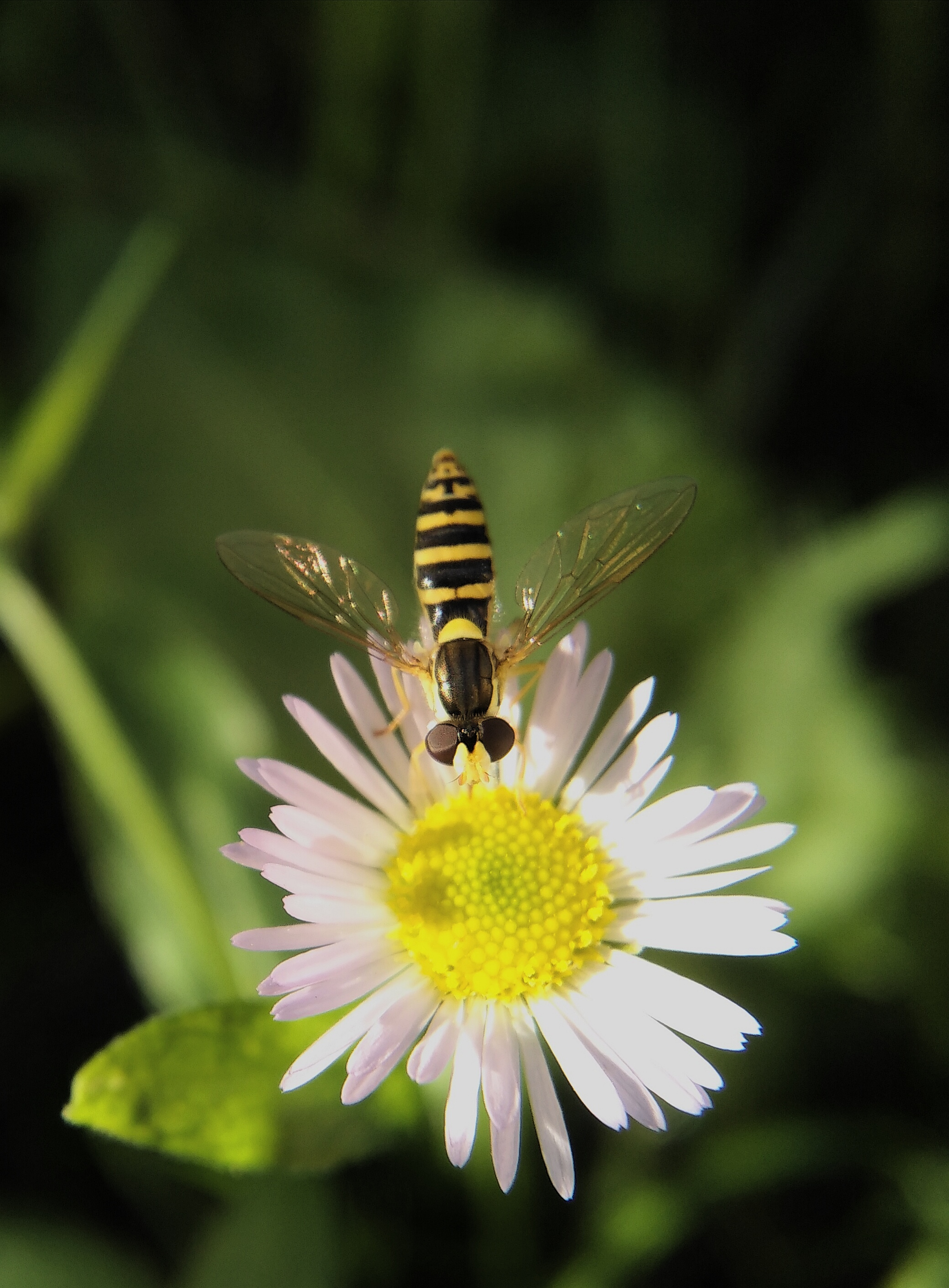 Syrphus ribesii on a flower